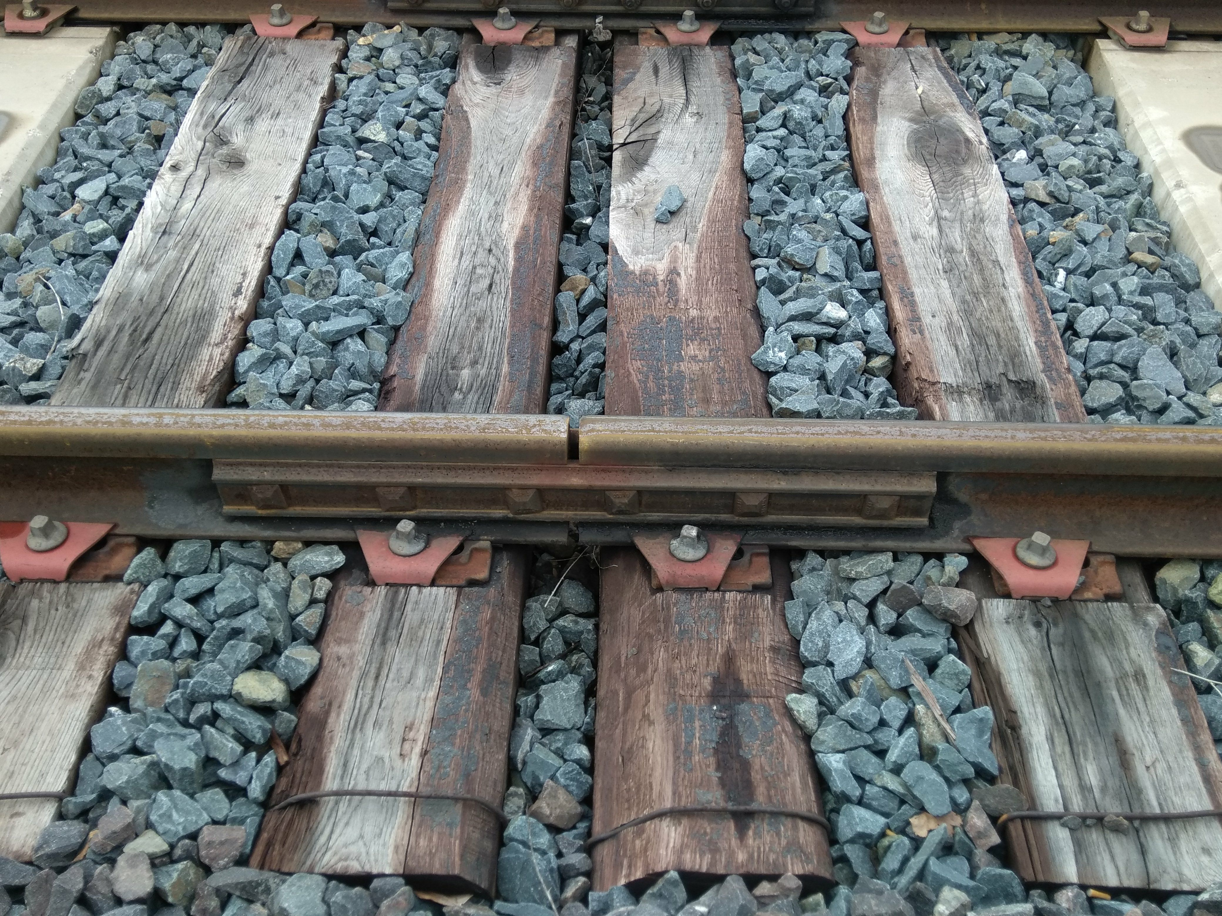 Fishplate shot from the platform of the new Carpentras railway station (Vaucluse, France) on track A.